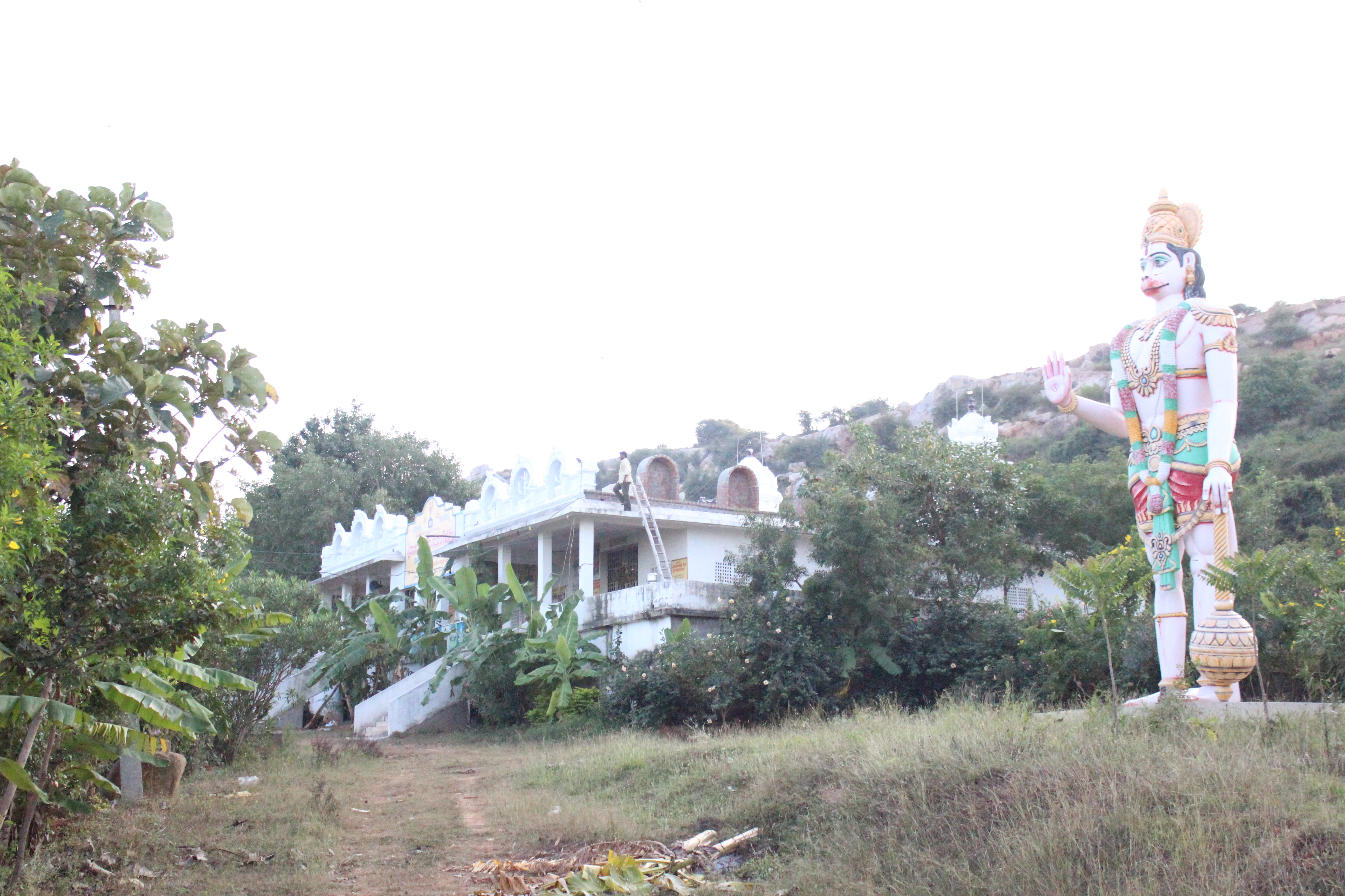 sangam temples